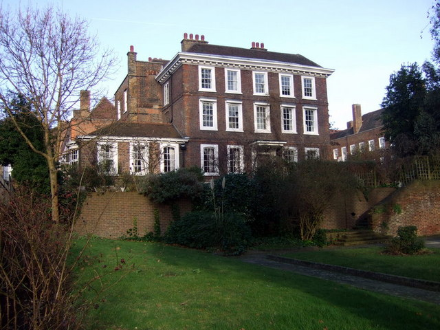 Burgh House in New End Square This beautiful old house, built in 1704, has a fascinating history having passed through many hands including the first physician of the Hampstead Wells spa, an upholsterer who was fined for having a dungheap in the garden, an unpopular local vicar, the Royal East Middlesex Militia, a notable stained glass designer, an international art expert and Rudyard's Kipling's daughter. It survived WW2 unharmed but began to fall into decay. Local people formed a charitable trust to raise money to buy the lease from Camden Council who restored the building and it was re-opened in 1979 as a museum and educational facility providing a programme of talks, recitals and exhibitions, a cafe and a wedding venue with a delightful garden too. A really lovely place to visit and free of charge.